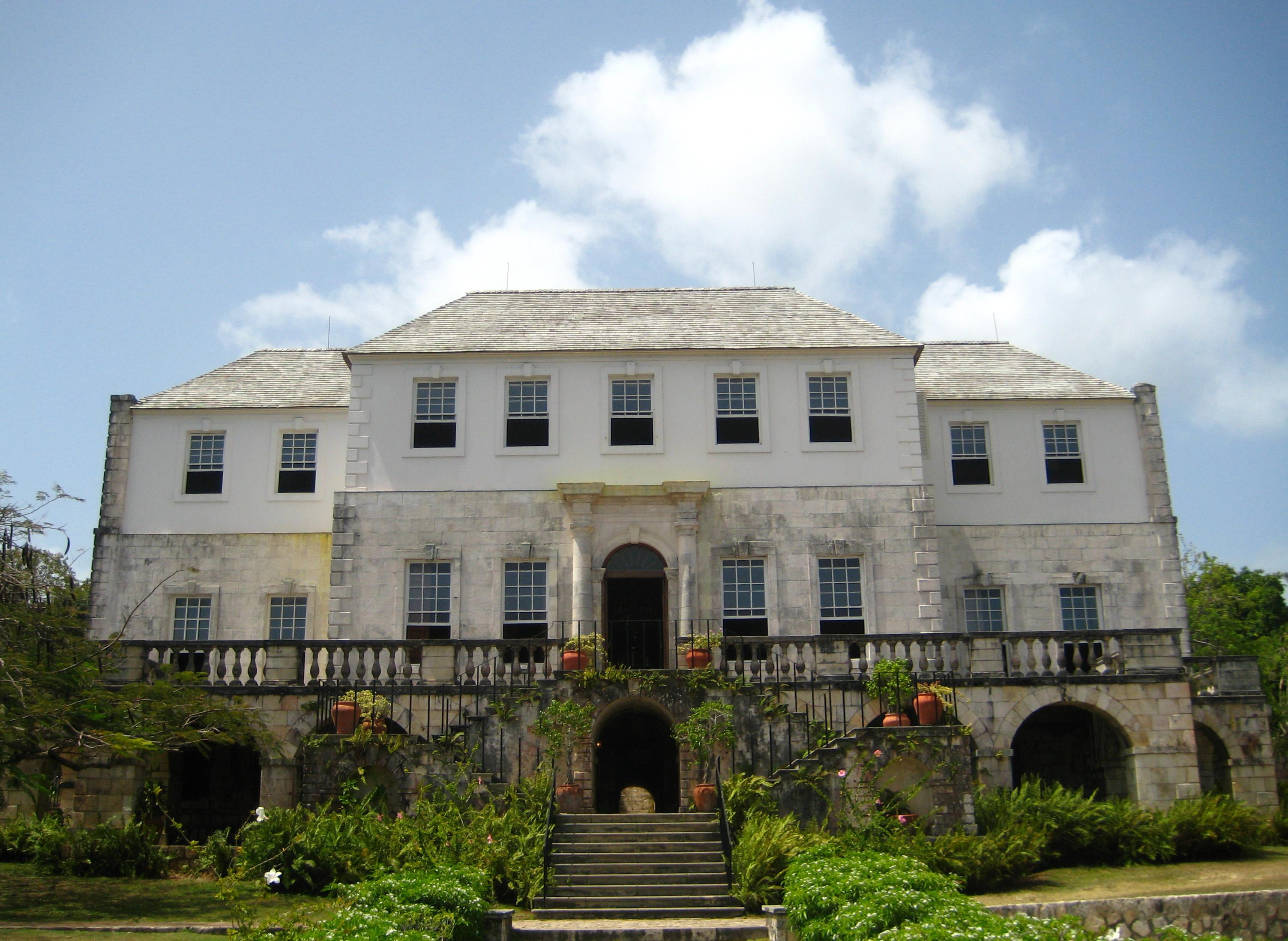 Rose Hall, the estate house of a former sugar plantation, in Jamaica.